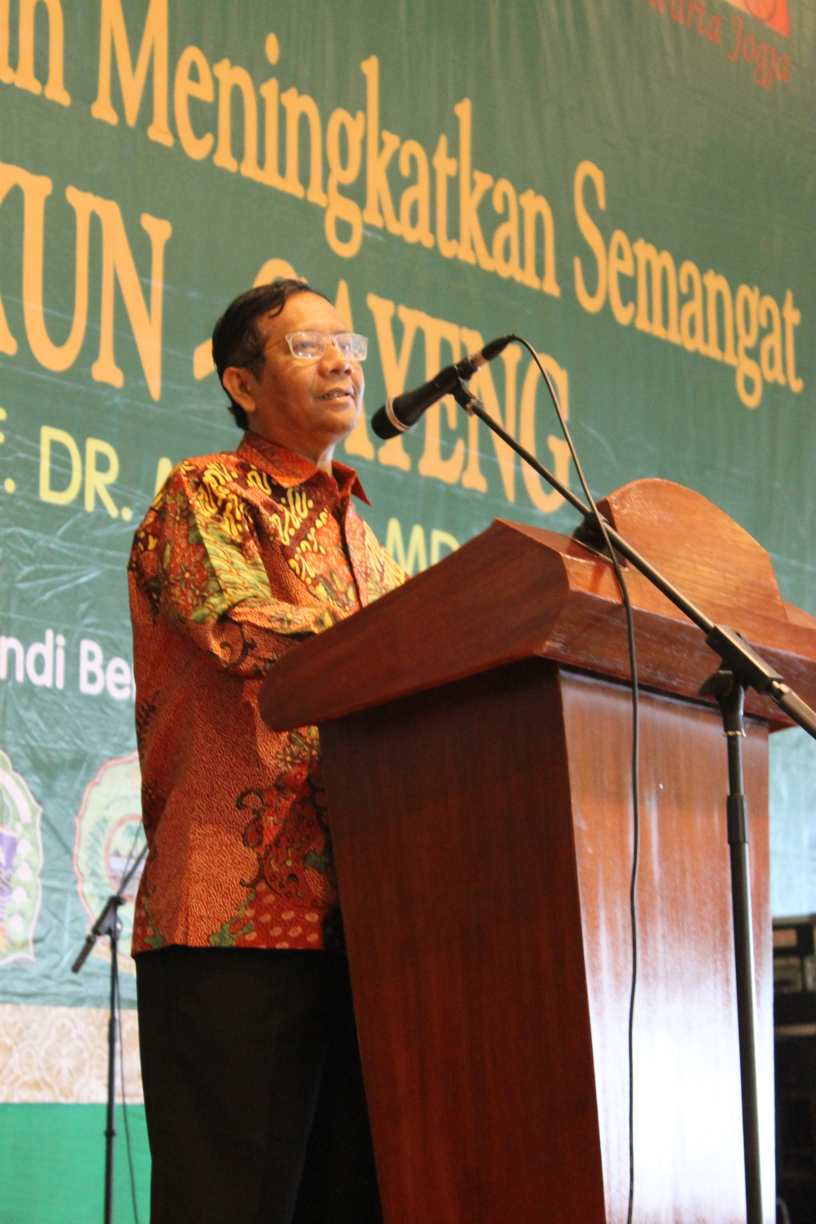 Indonesian politican and lawyer, previously had been the People's Representative Council member, the Minister of Justice under the Wahid Presidency and former constitutional court's chief justice. Currently he's running for the nation's next president after Yudhoyono. Here's him August 25 at a local gathering at Jakarta.